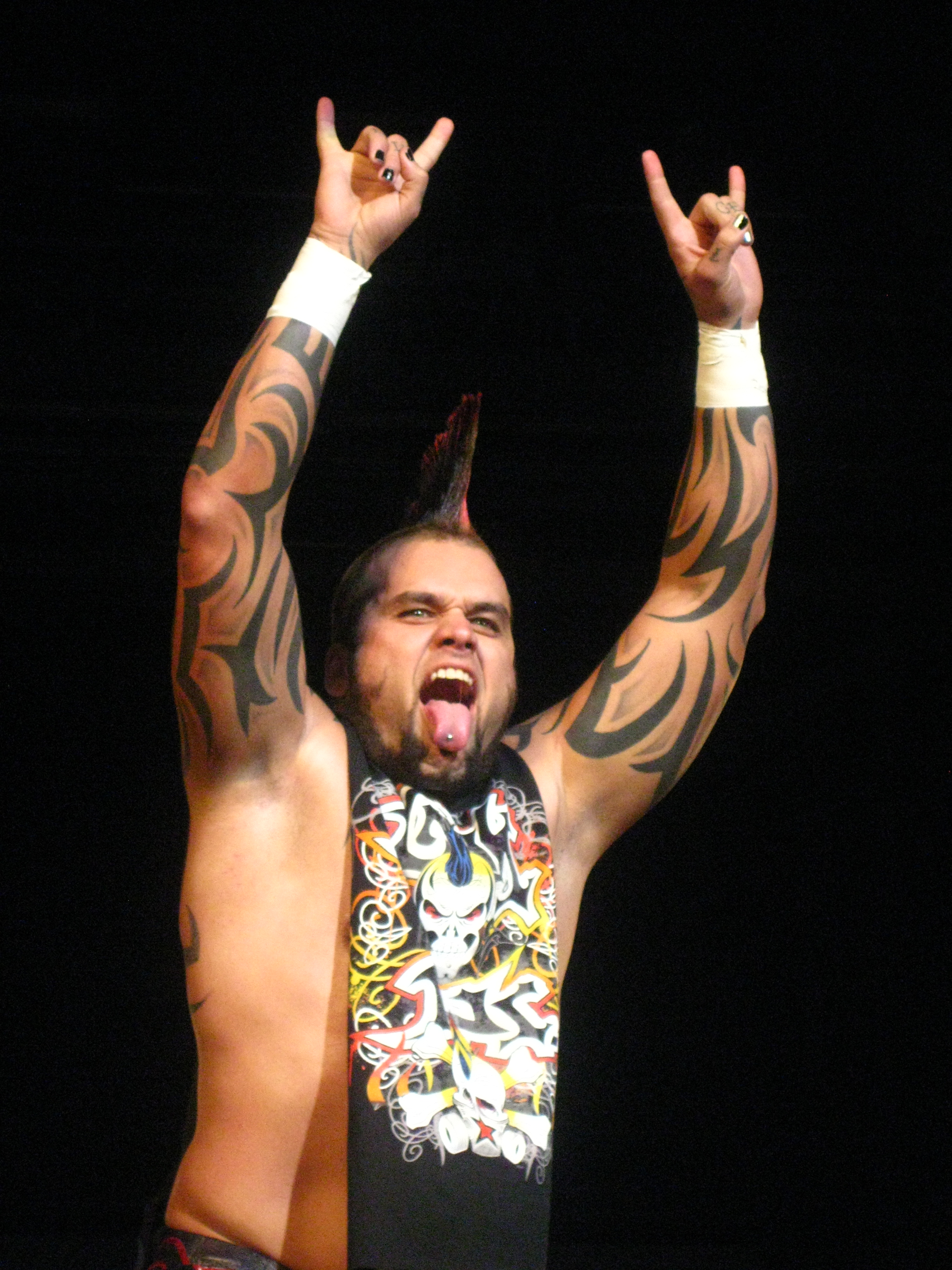 A TNA Live! Even at the ShoWare Center in Kent, WA. No PRO cameras were allowed so I had to put my Canon PowerShot SD1100 IS to work!